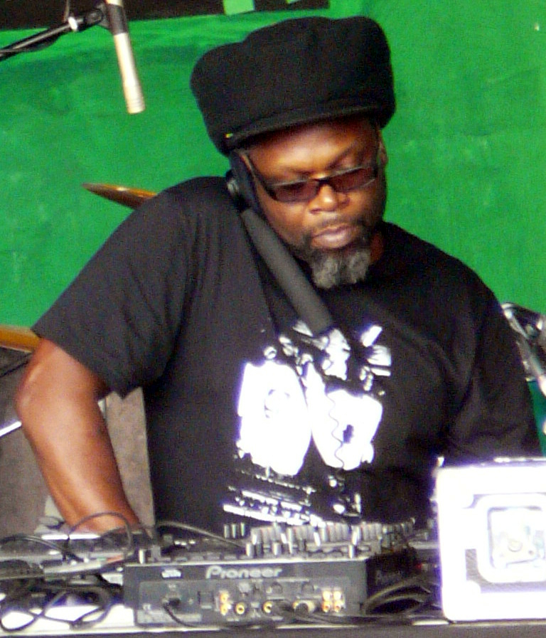 Soul II Soul feat MC Chickaboo, Lambeth Country Show 2010, Brockwell Park